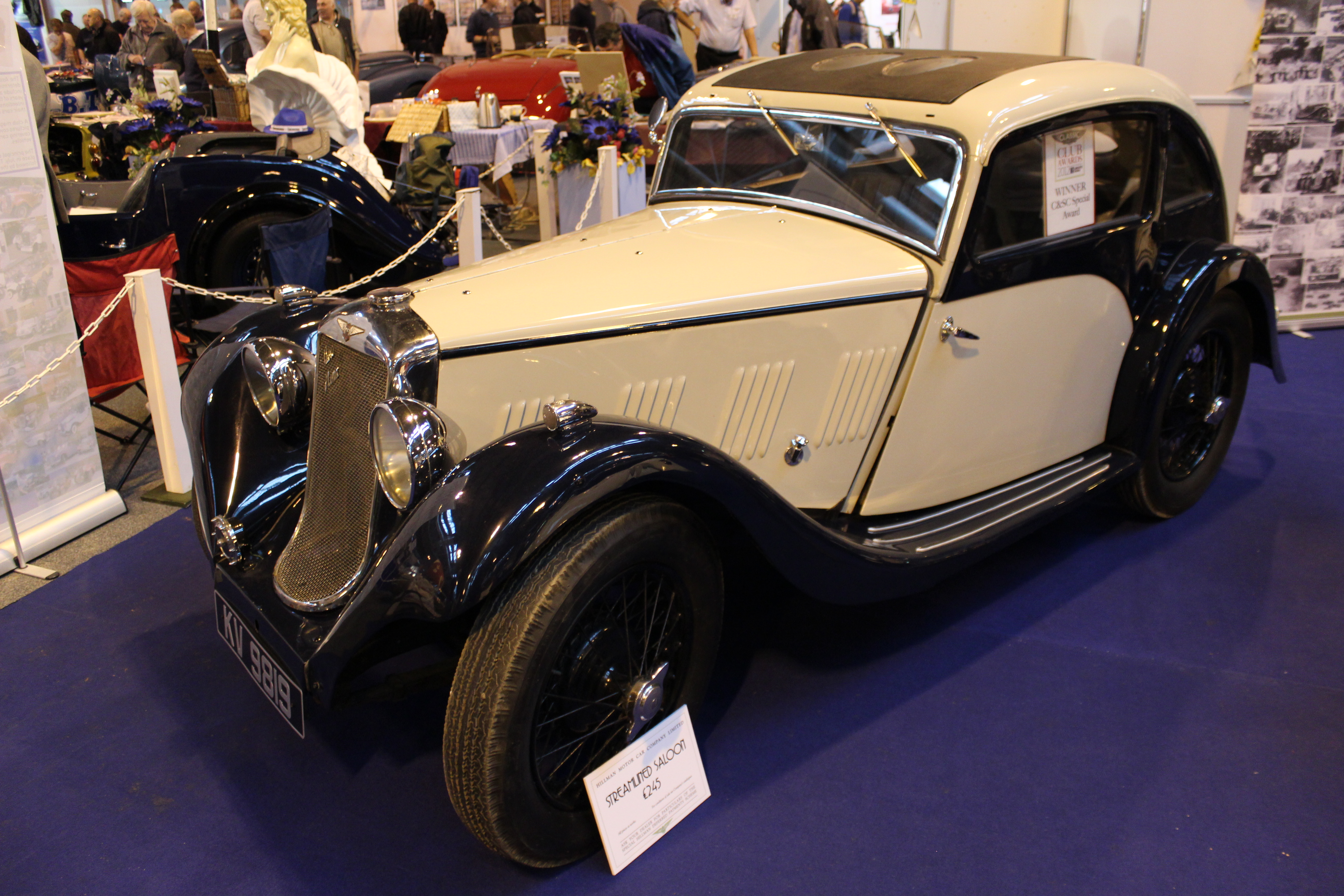 1934 Hillman Aero Minx streamlined fixed head coupé (DVLA) first registered 26 June 1934, 1124 cc NEC classic car show 2014